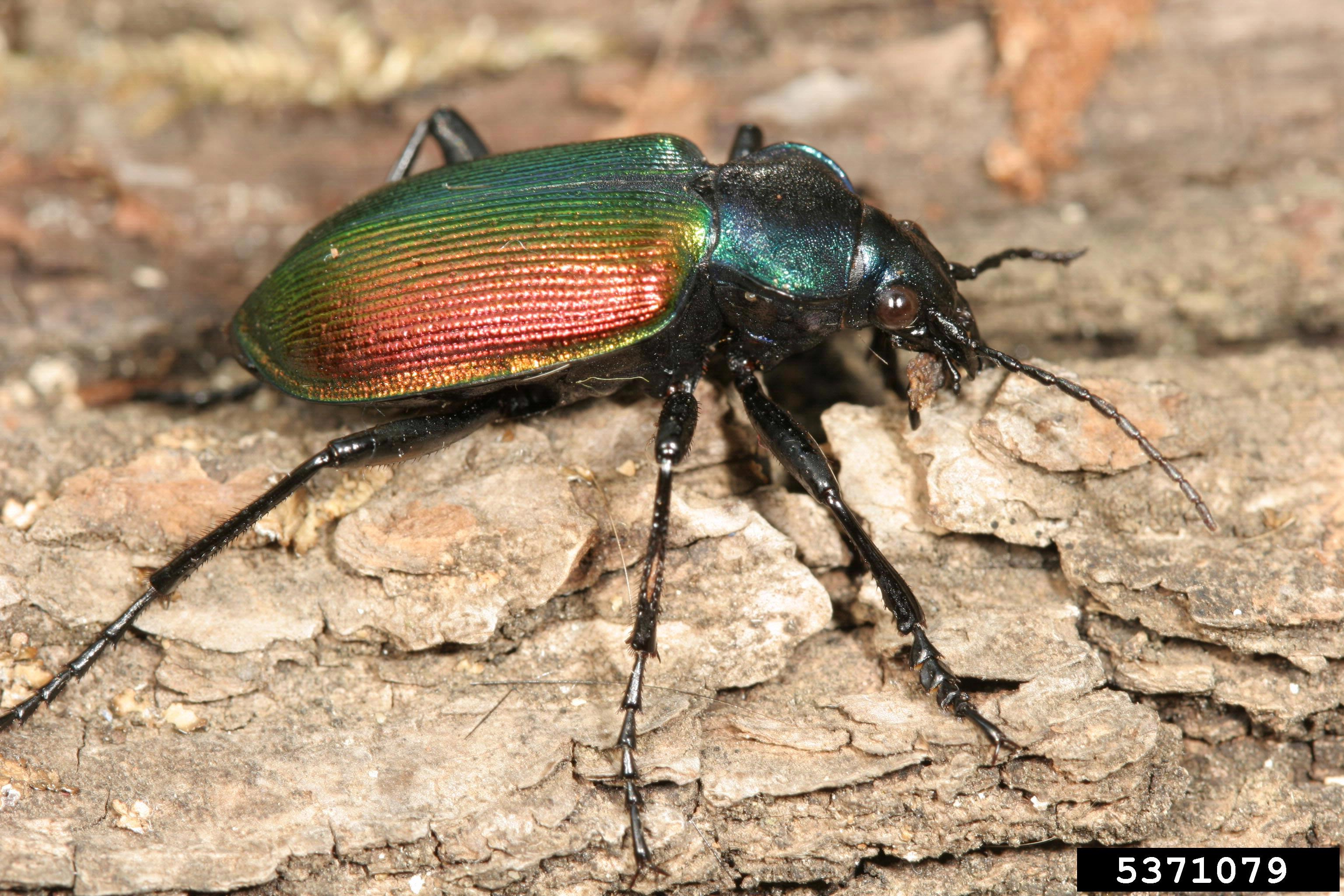 Ground beetle (Calosoma sycophanta)